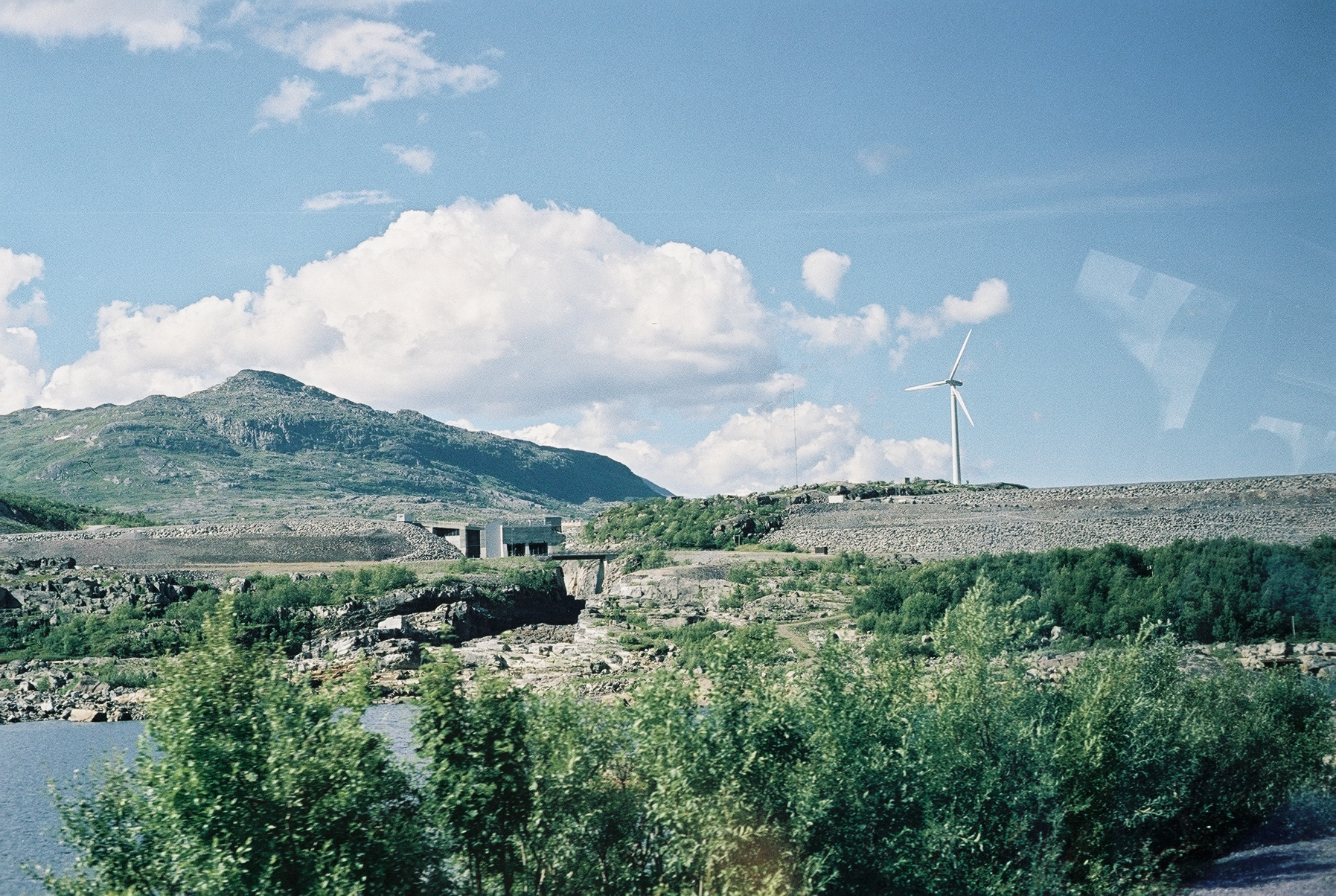 The Suorva dam near Stora Sjöfallet National Park